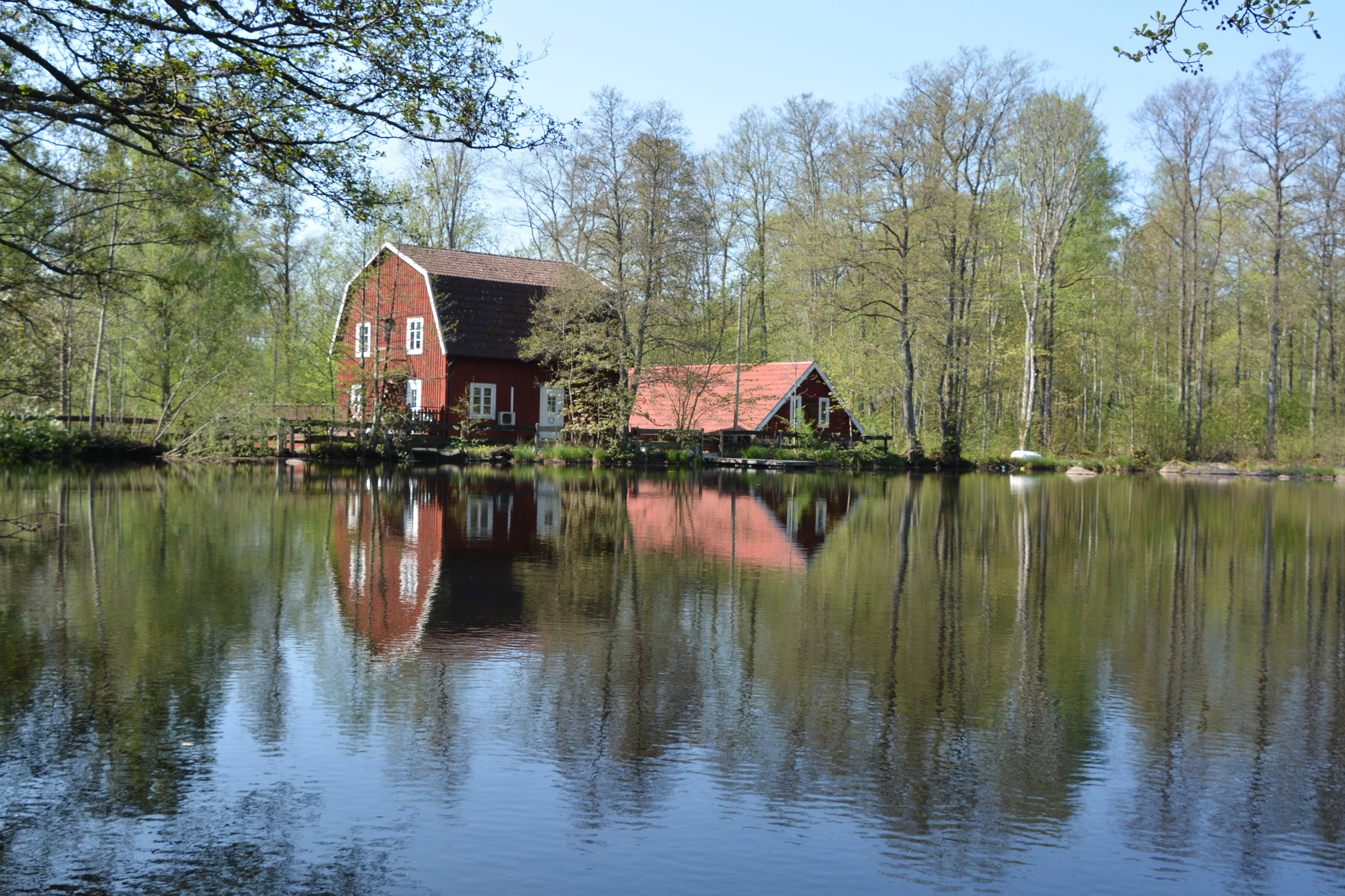 Knällsbergs kvarn och dammen i Bräkneån